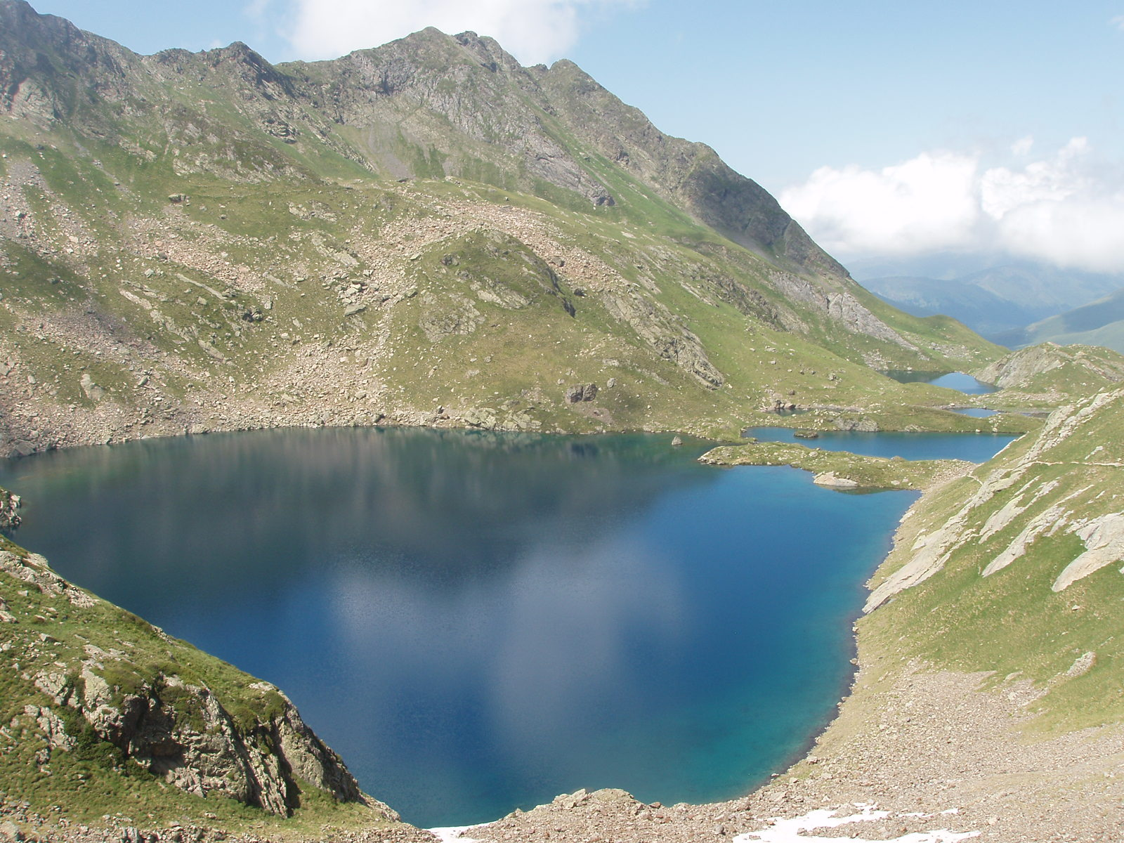 Lakes in Pyrénées Haute-Garonne Hospice de France